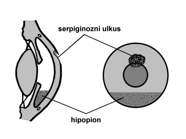 Scheme of ulcus serpens